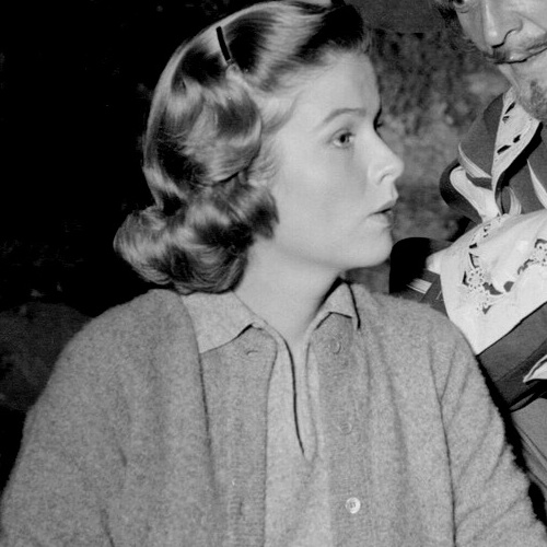 Photo from the 1956 television presentation of the Maxwell Anderson play High Tor. The play was adapted as a musical when it aired on Ford Star Jubilee. In this scene, Judith (Nancy Olson) searches for Van (Bing Crosby), finding him with the spirit Lisa. The spirit of a sailor (Everett Sloane) then appears to her to say that Van will return to her in the morning.